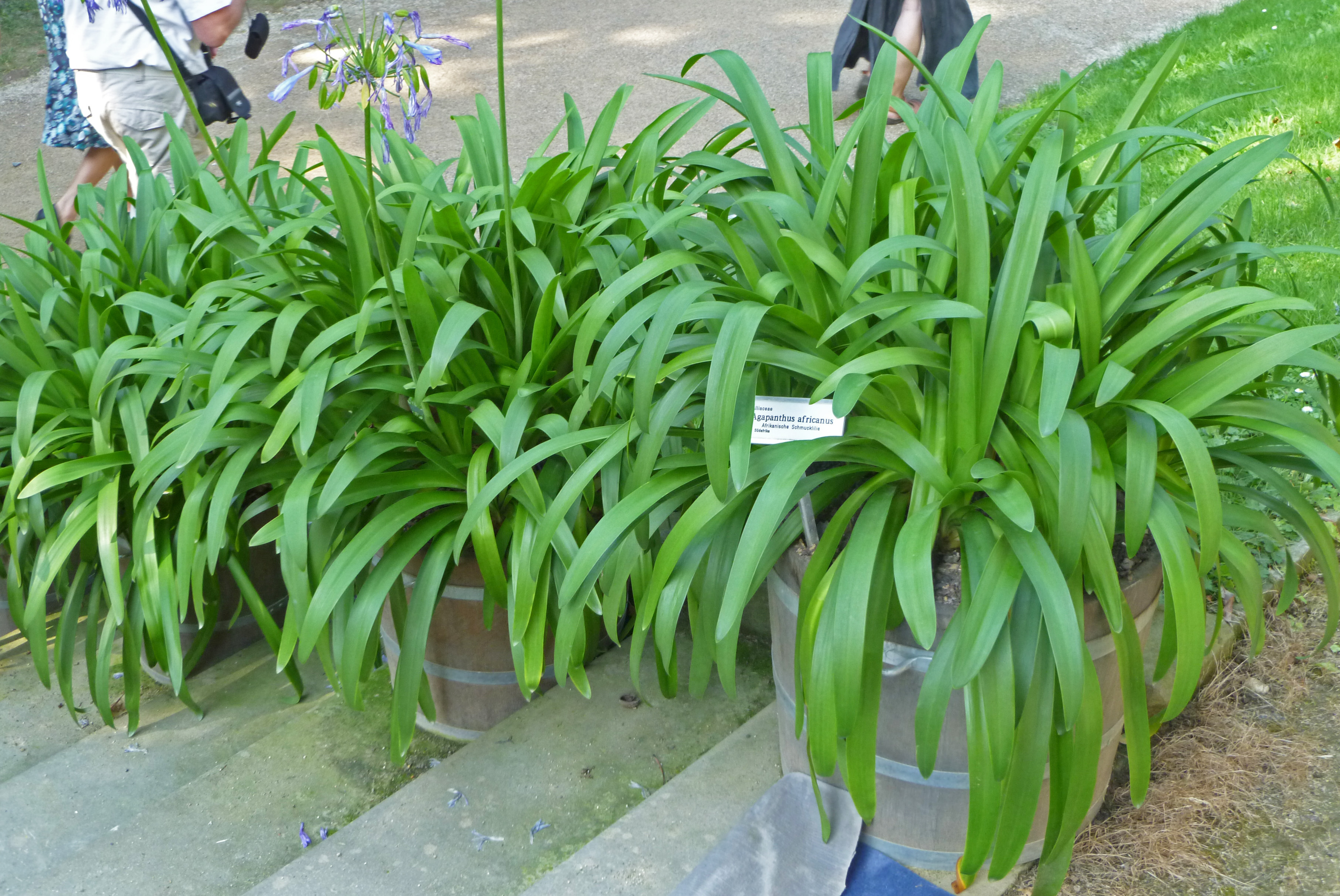 Agapanthus africanus, Amaryllidaceae; botanical garden of Pillnitz Castle, Germany